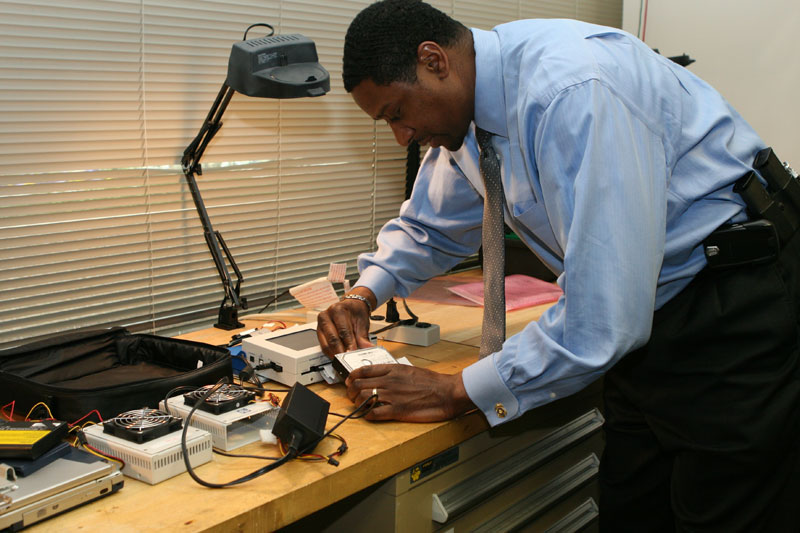 DCIS special agents investigate cyber crime within DoD.